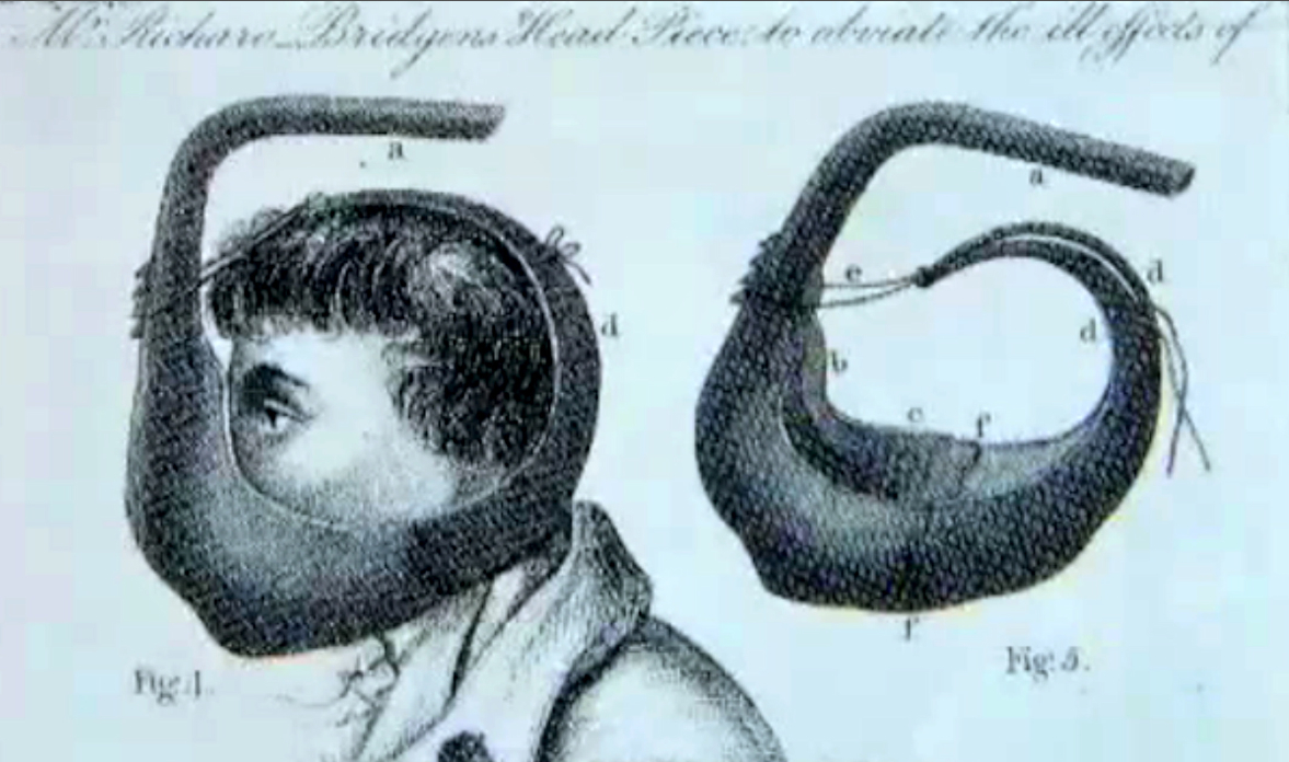 Mask used to avoid the harzadous mercury fumes caused during the fire gilding process, to gild bronze (or other metals) with gold.